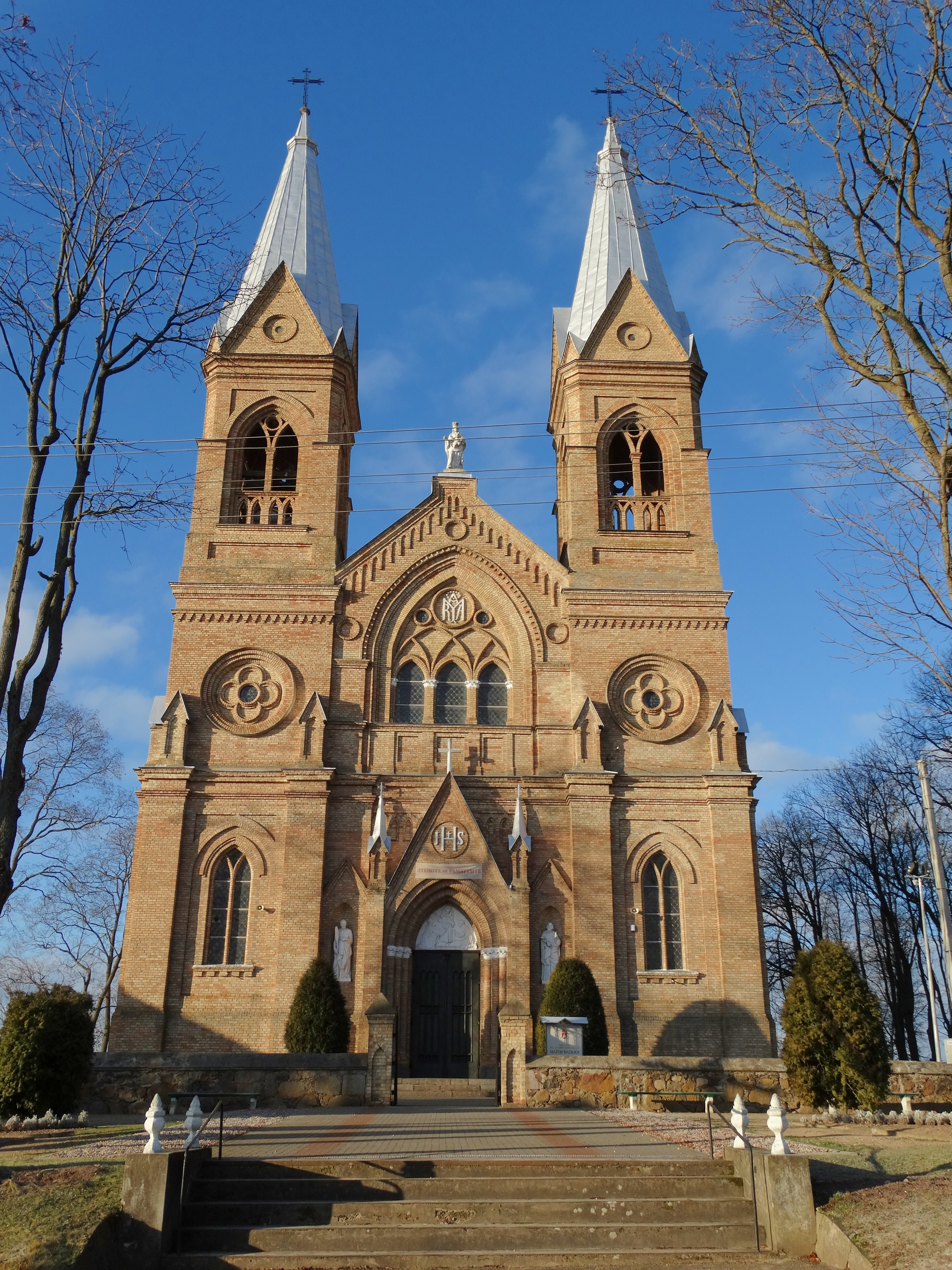 Basilica of the Assumption of The Holy Virgin Mary, Krekenava, Panevėžys District, Lithuania